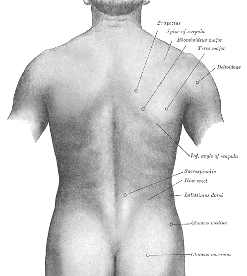 Surface anatomy of the back